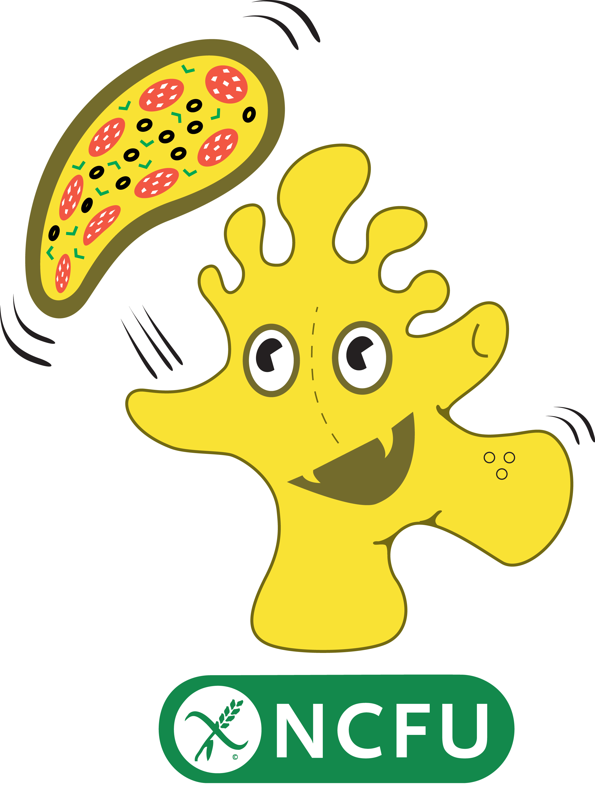 The norwegian youth coeliac societys champion, throwing av pizza in the air.